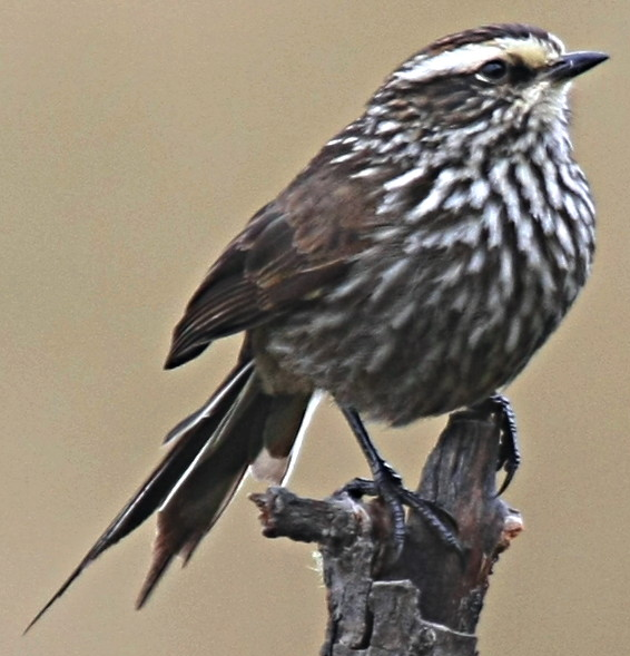 An Andean Andean Tit-spinetail (Leptasthenura andicola), a species of bird in the Furnariidae family found in Bolivia, Chile, Colombia, Ecuador, Peru, and Venezuela.